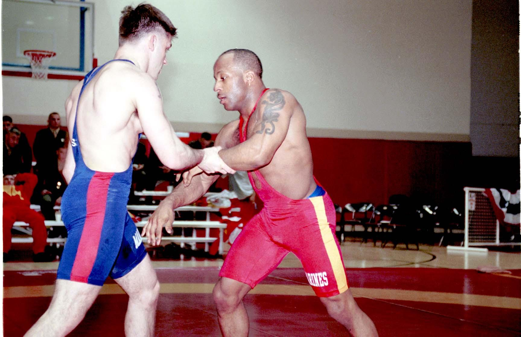 John Roy is in full guard against his opponent